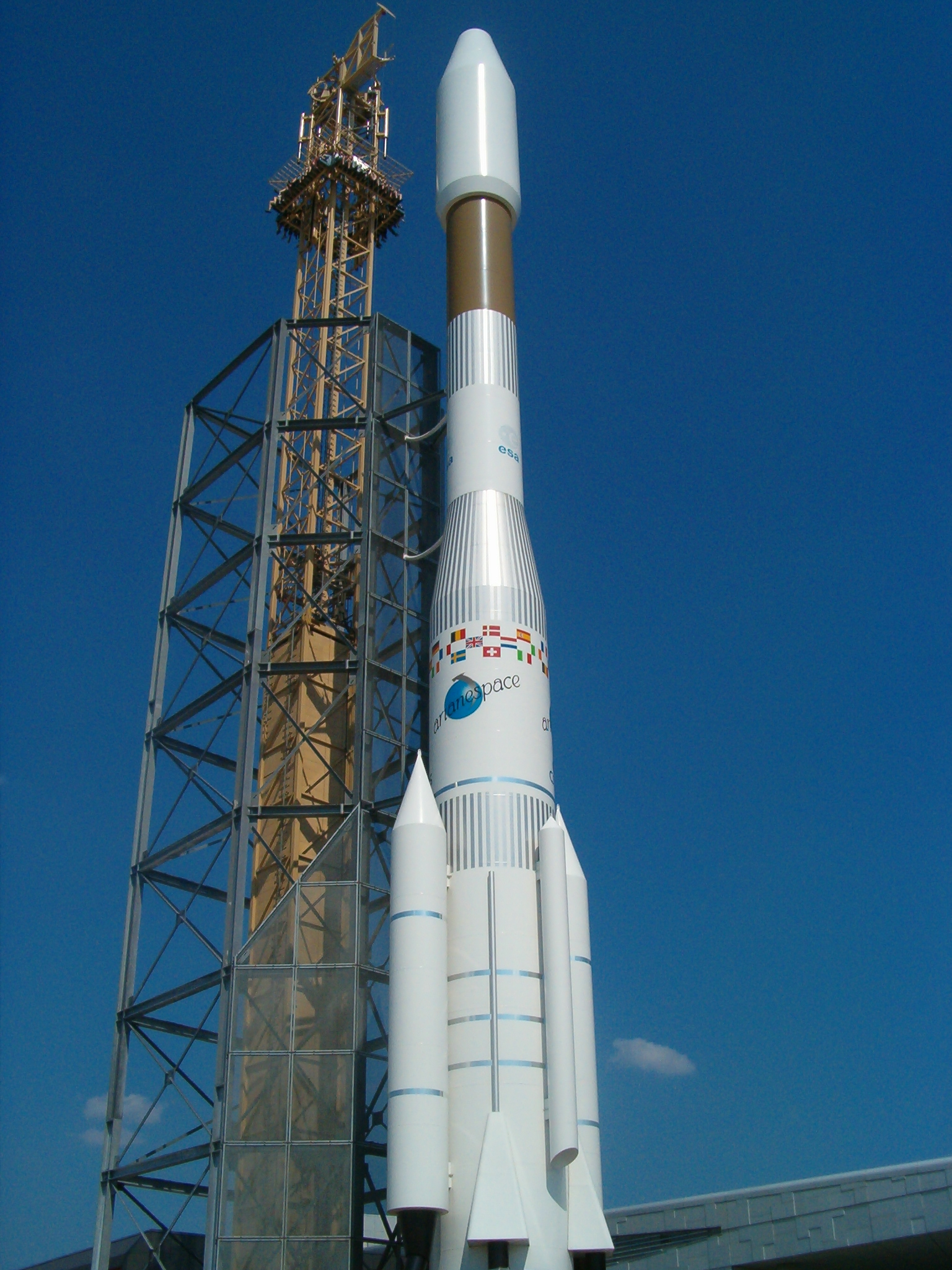 Picture of the Ariane 44LP rocket clone at the Space Center Bremen.